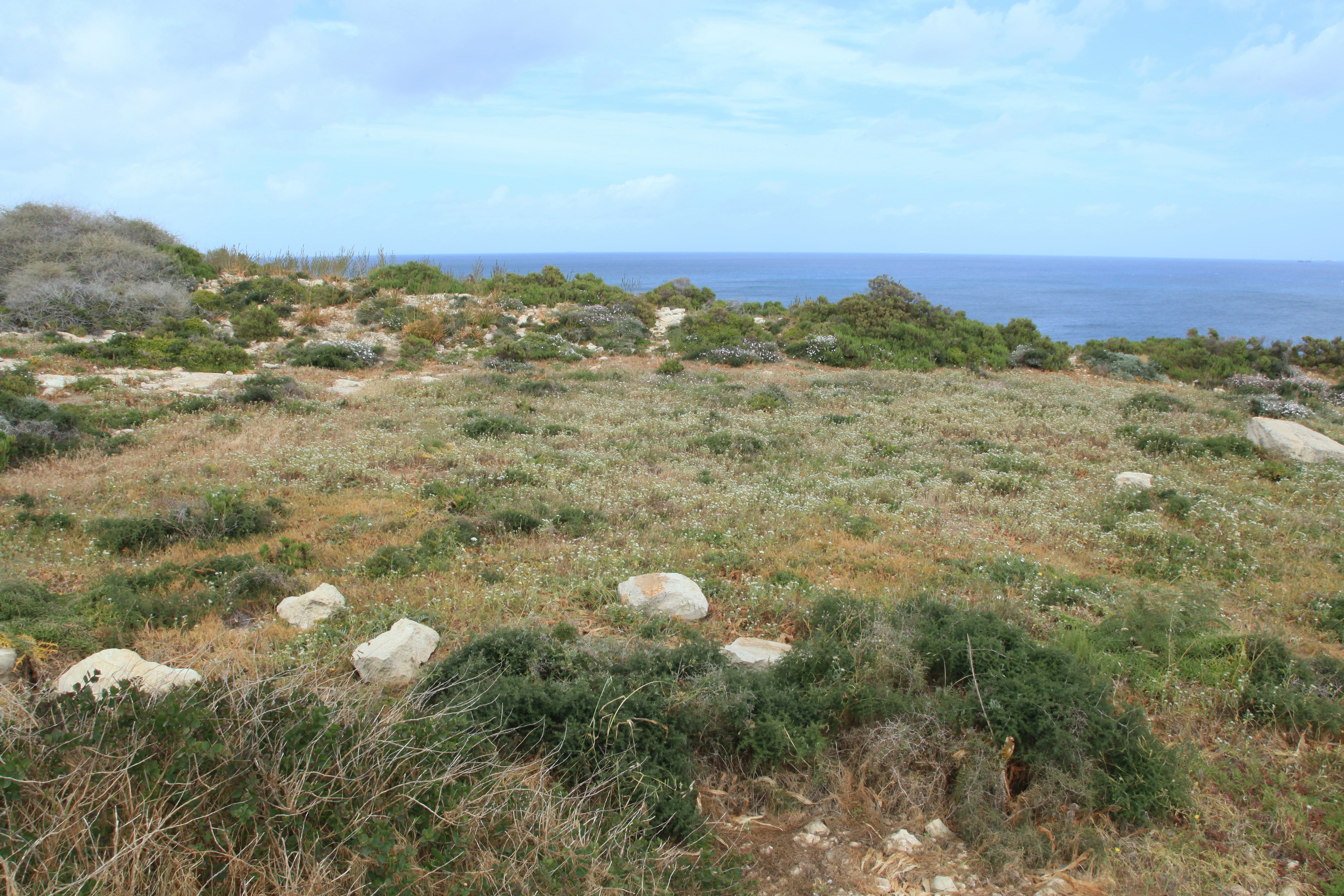 Poor remains of the Xrobb l-Għaġin Temple in the Xrobb l-Għaġin Park, Triq Delimara in Marsaxlokk, Malta